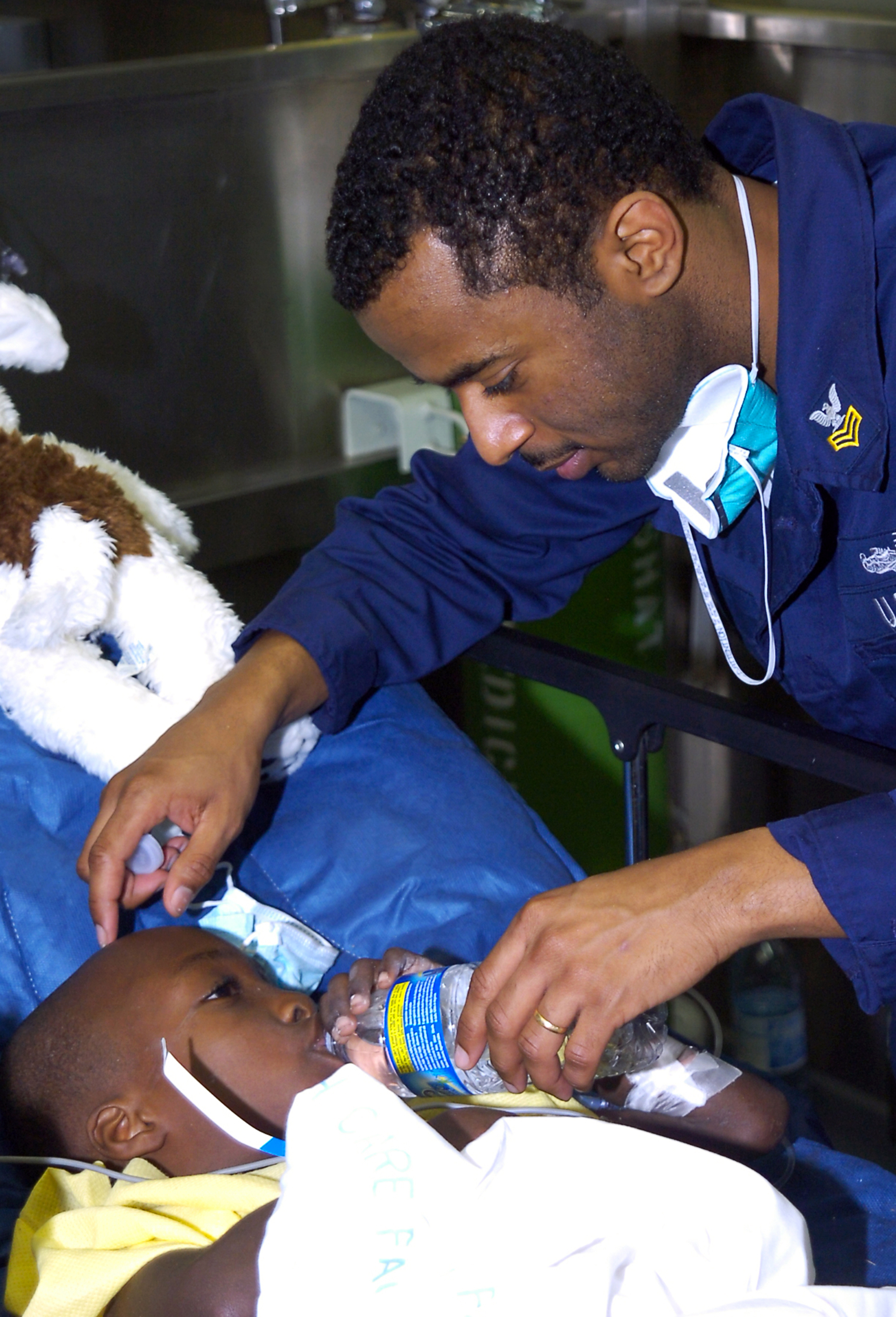 Electronics Technician 1st Class Dietrich Rey provides water to a Haitian child who is being treated aboard the Military Sealift Command hospital ship USNS Comfort (T-AH 20) after the 2010 earthquake.